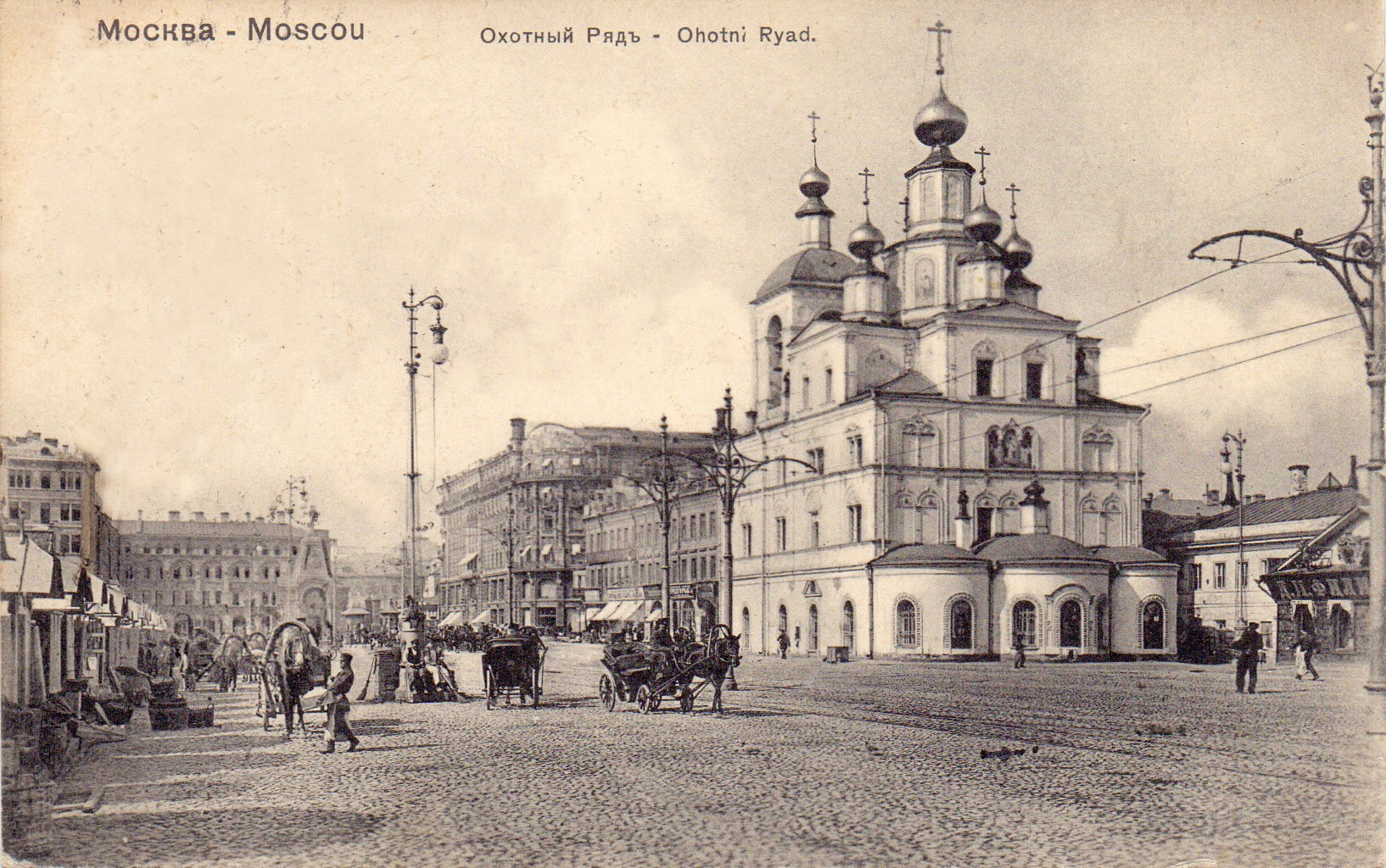 Church of St. Paraskeva at Okhotny Ryad, Moscow